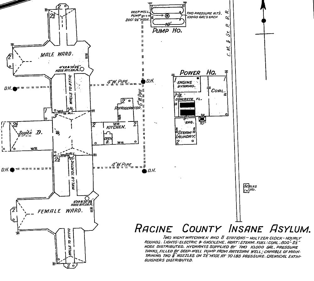 A Sanborn map of the Racine County Insane Asylum, 1908.